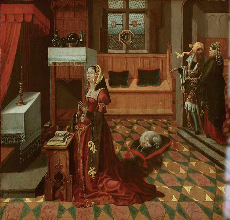 The legend of St. Emerentia (predella wings); The life of Anna; the life of Mary and the childhood of Christ (wings)